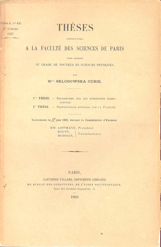 Kernowek: Marie Curie-Skłodowska: Recherches sur les substances radioactives Dissertation Paris, 1903. "Commission d'examen": Gabriel Lippmann, Edmond Bouty & Henri Moissan. Collection Leiden University Library (The Netherlands)